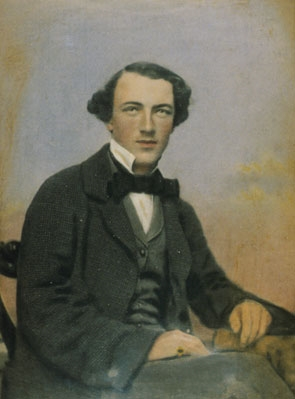 Coloured photographic portrait of 19th-century Australian sportsman Tom Wills.